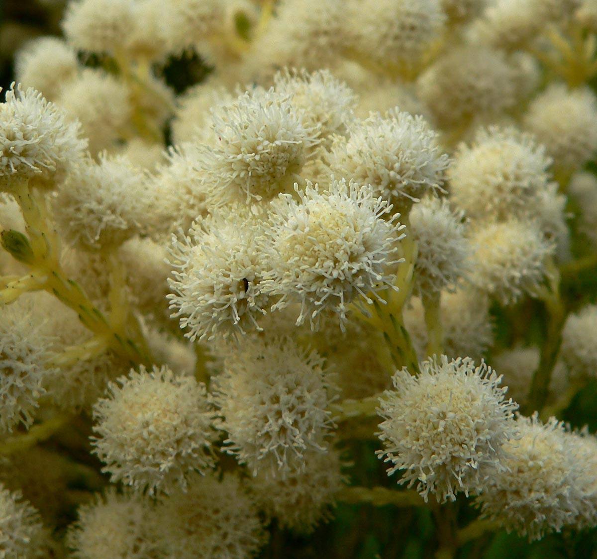 Photo of Berzelia lanuginosa at the University of California Botanical Garden